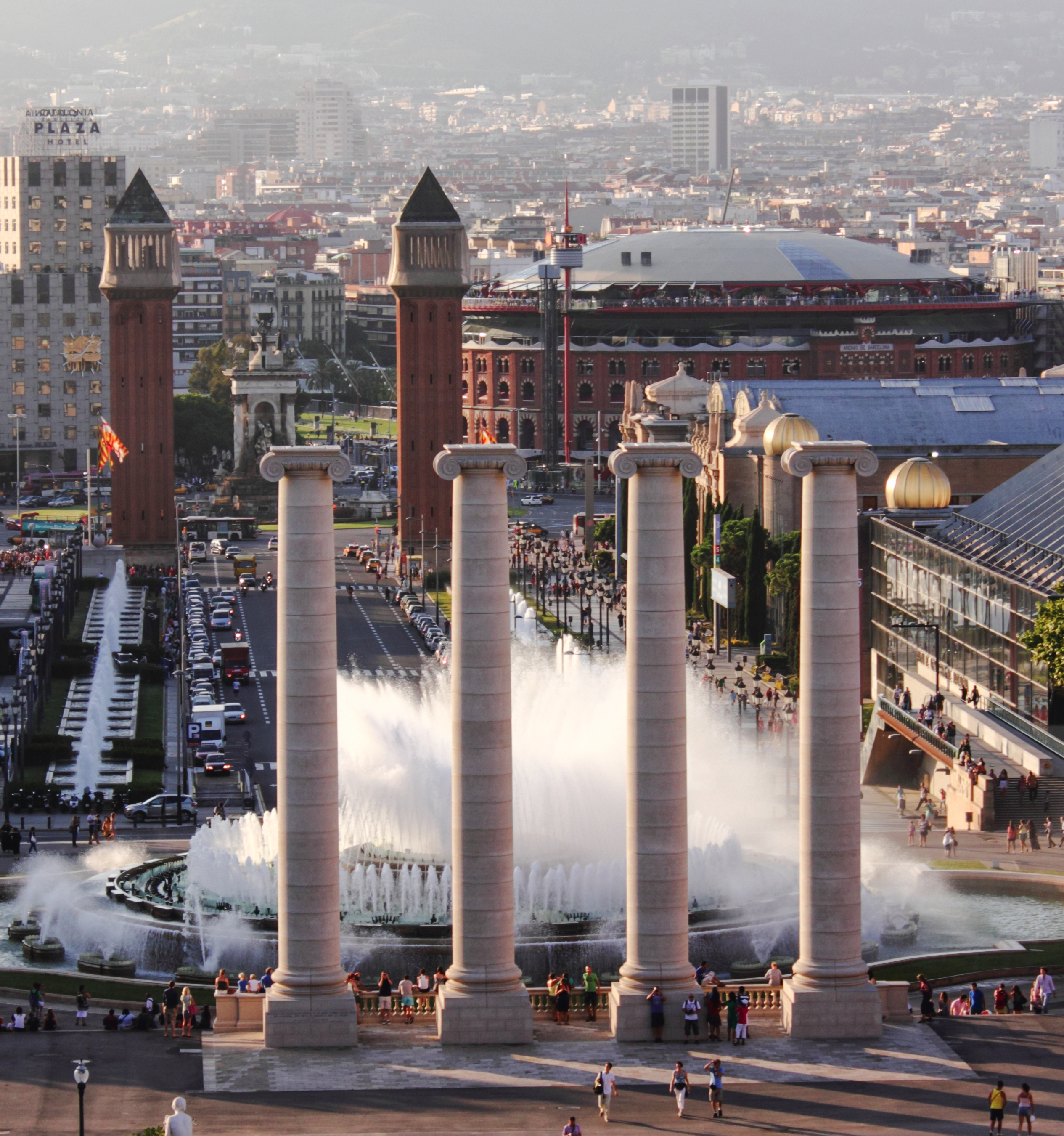 Columns of the magic foutain of Montjuïc